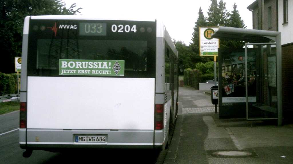 Bus Stop with Bus in Lockhütte, Mönchengladbach, Germany.